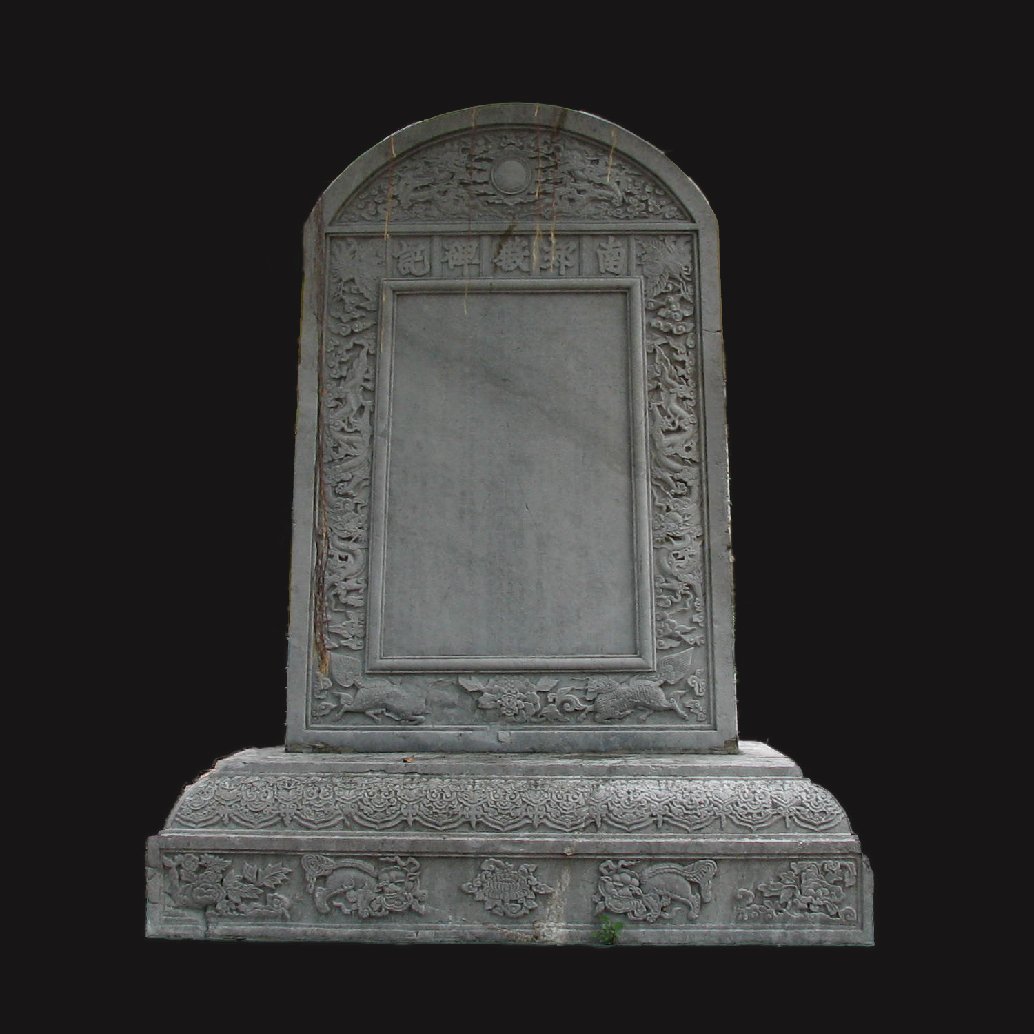 Nam Giao Stele, erected on the 4th year of Vinh Tri (1679) of Emperor Le Hy Tong with inscription about building the Esplanade of Sacrifice to the Heaven and Earth in Thang Long